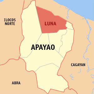 Map of Apayao showing the location of Luna